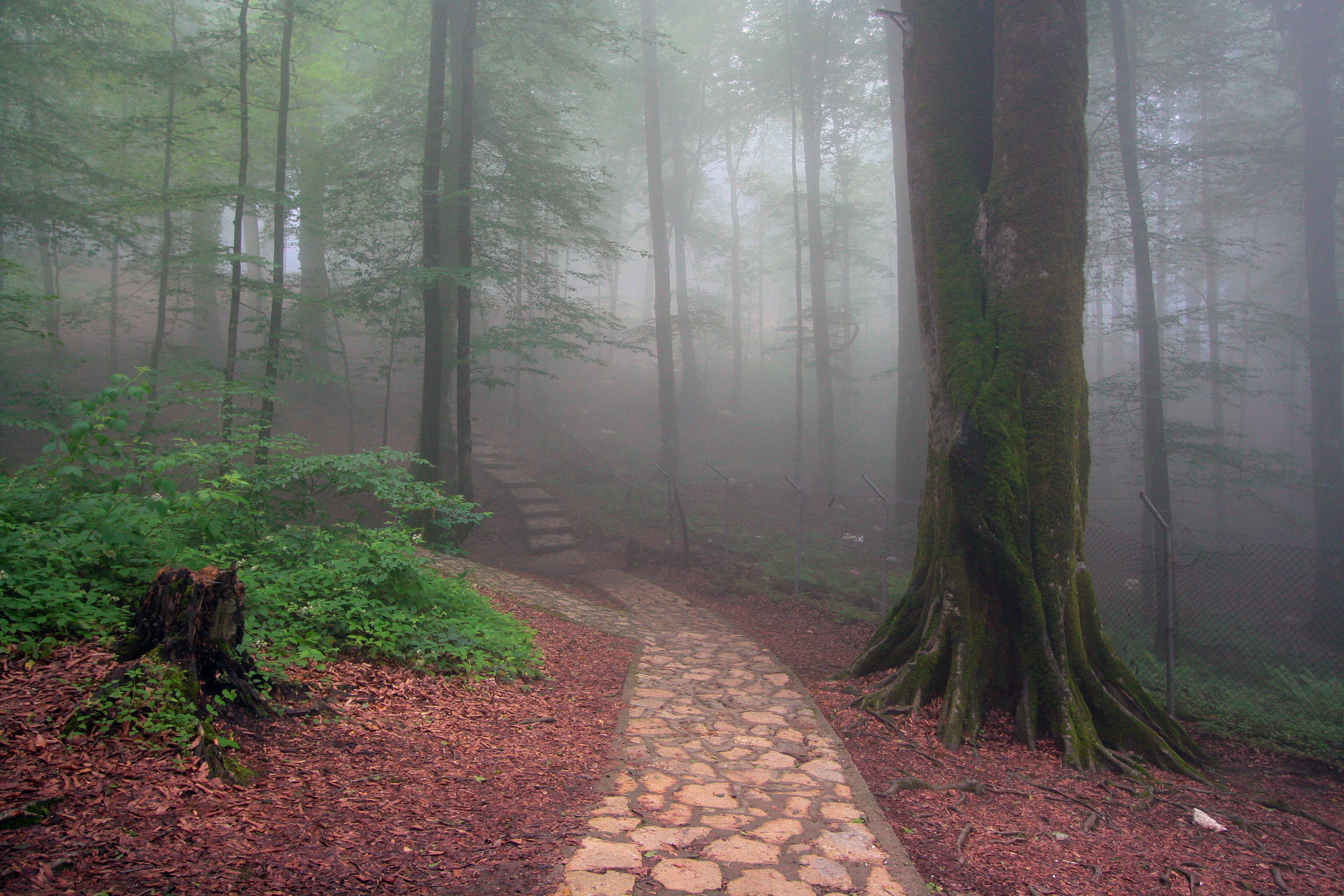 Shahrak-e Namak Abrud (Persian: شهرك نمك ابرود, also Romanized as Shahrak-e Namak Ābrūd; also known as Namak Abrood, Namak Ābrūd, Namak Ābrūd Sar, and Namakrūd Sar)is a village in Kelarestaq-e Gharbi Rural District, in the Central District of Chalus County, Mazandaran Province, Iran. At the 2006 census, its population was 354, in 71 families.